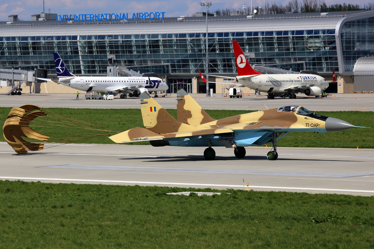 Chadian Air Force Mikoyan-Gurevich MiG-29 (9-13) at Lviv International Airport